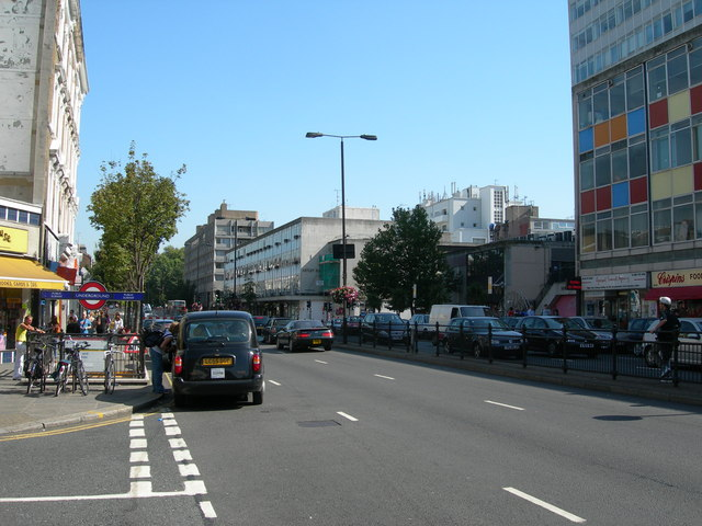 Notting Hill Gate. Near the junction of Pembridge Road.